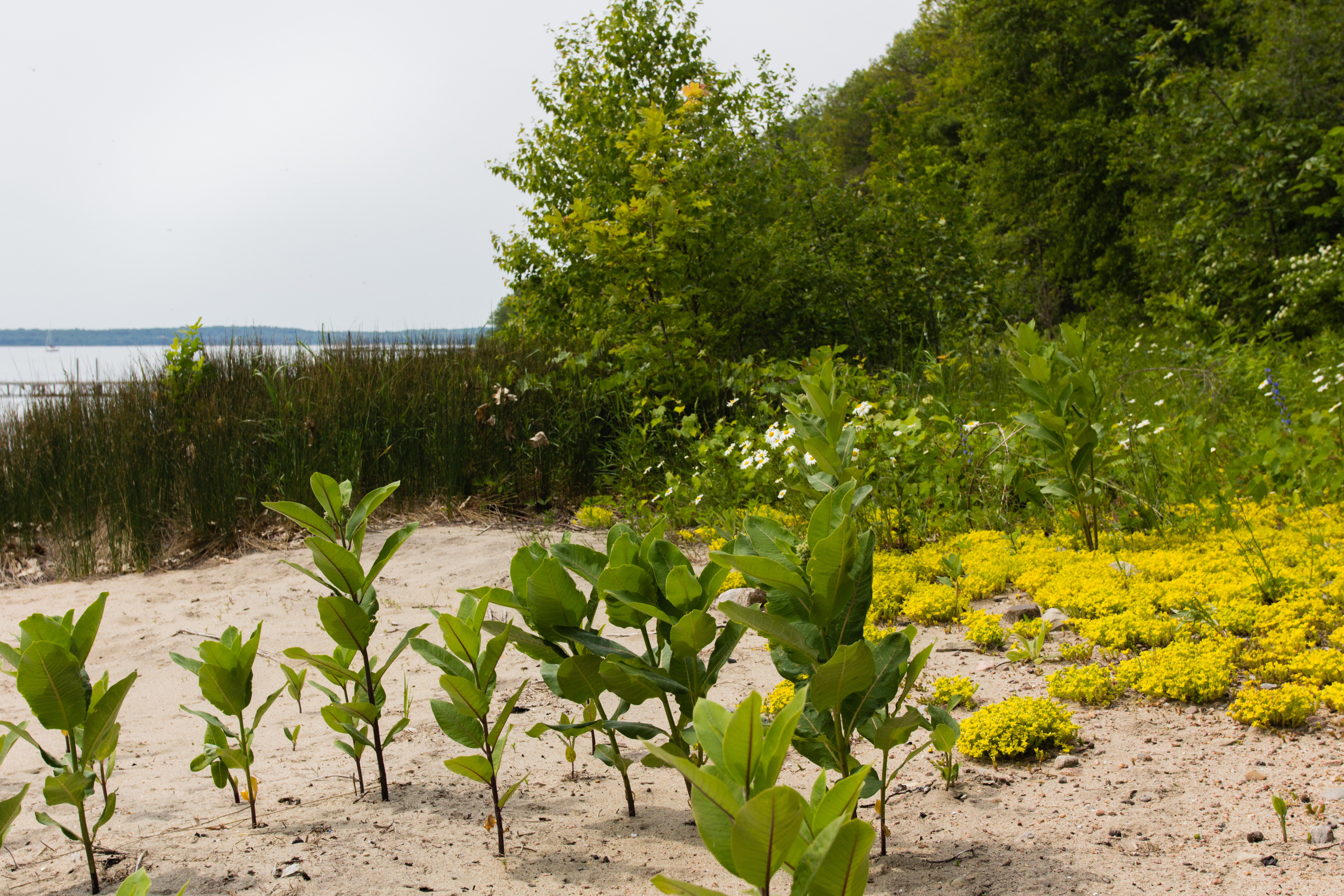 Natural Beach on Quarry Island. located in Georgian Bay, Ontario, Canada.